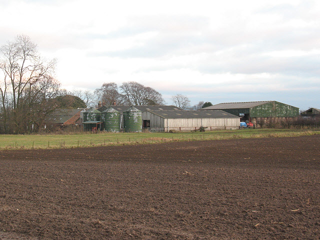 Springbank Farm from the rear. See a comment on the farm's name with the other view 1102294.